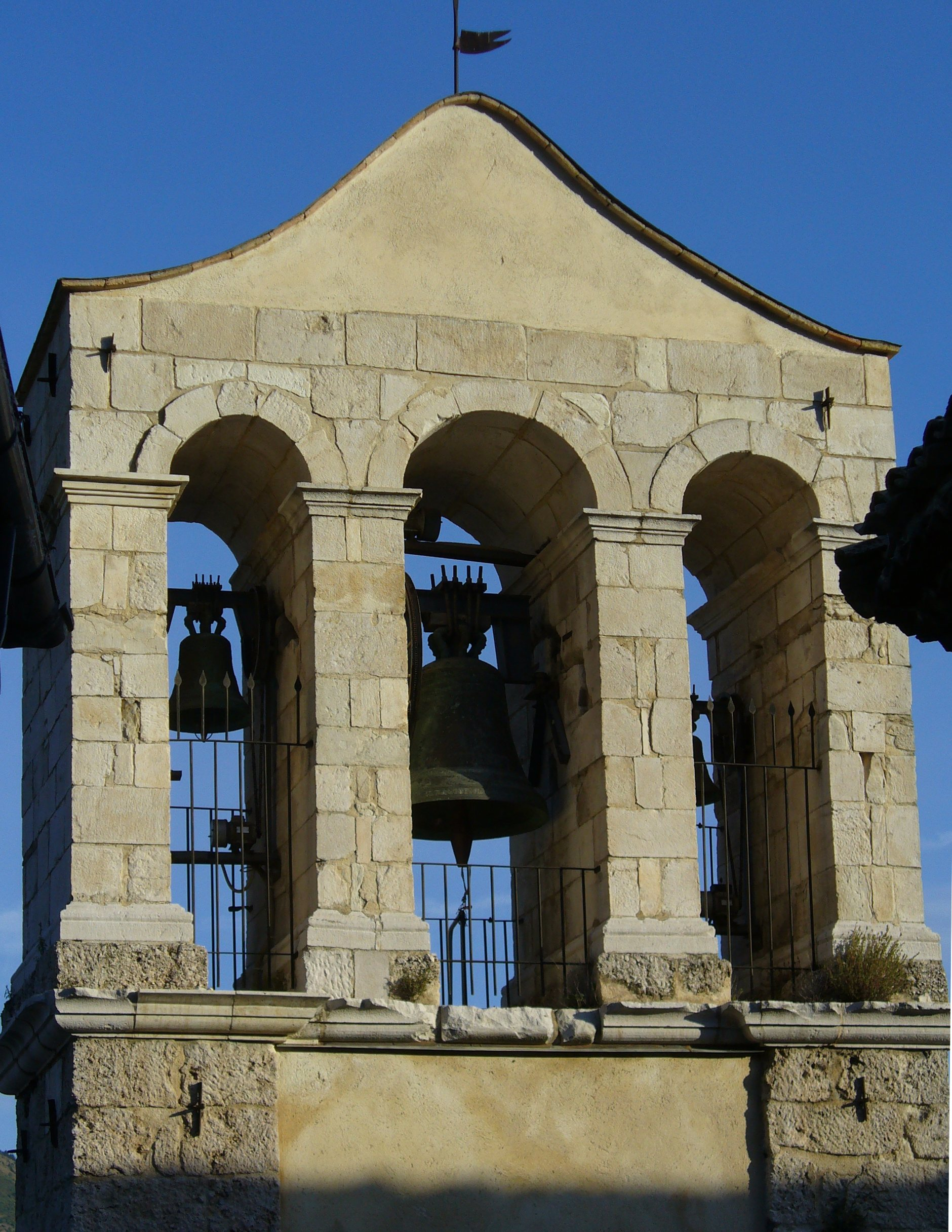 Campanile or belltower of SS Rosario church, the largest church in Bugnara, Italy. The belltower is now mechanically operated.